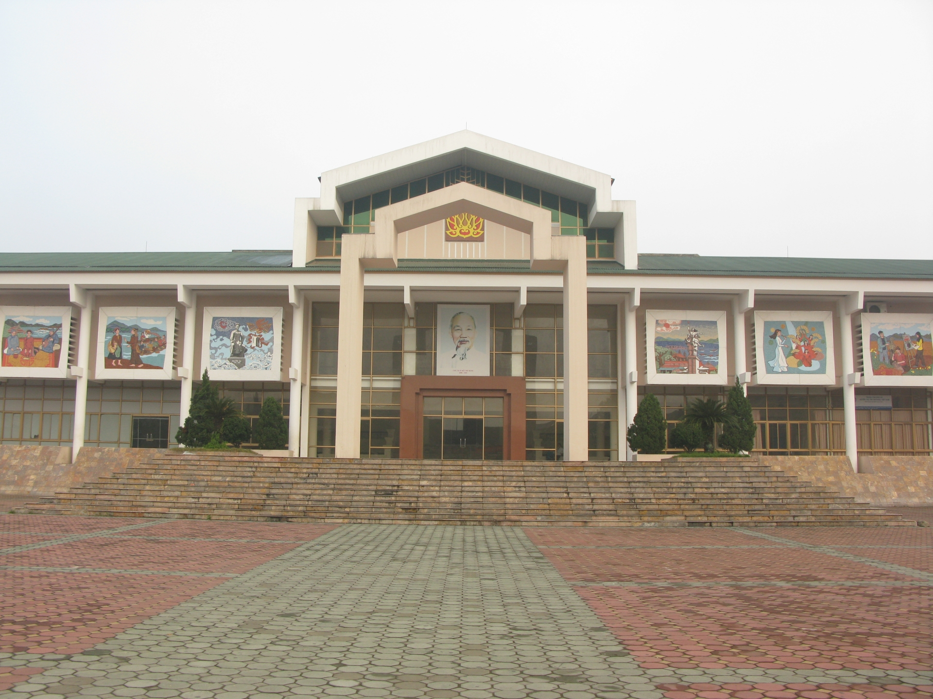 Cultural palace in Hà Tĩnh City, Việt Nam.